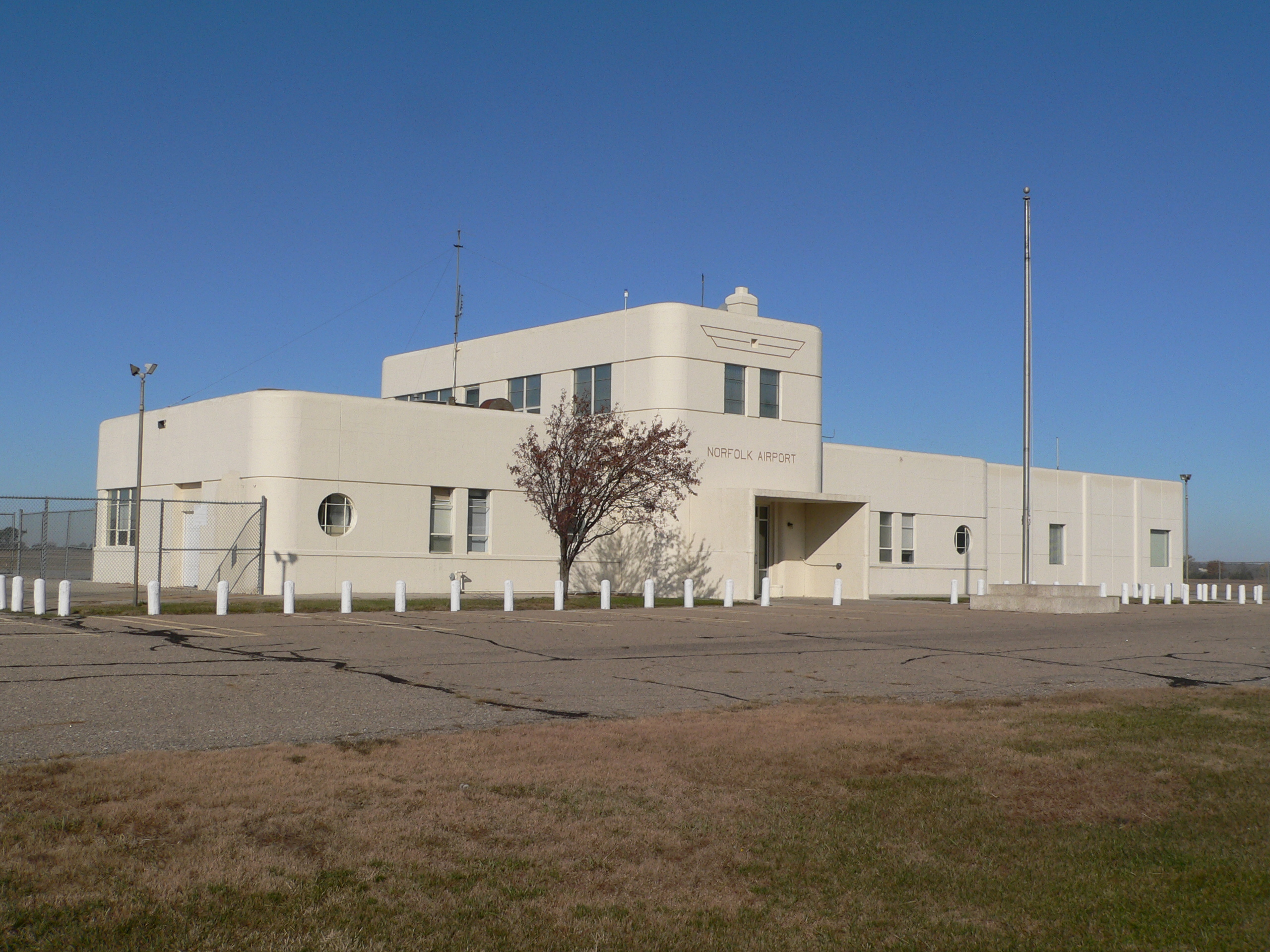 The Karl Stefan Memorial Airport Administration Building in Norfolk, Nebraska, seen from the southeast. The building is on the National Register of Historic Places. It was designed in the Streamline Moderne style by architect E. B. Watson and constructed in 1946. It originally served as the terminal building for the airport. As of October 2009, it was apparently not in use; a sign on the door indicated that the airport authority offices had been moved.